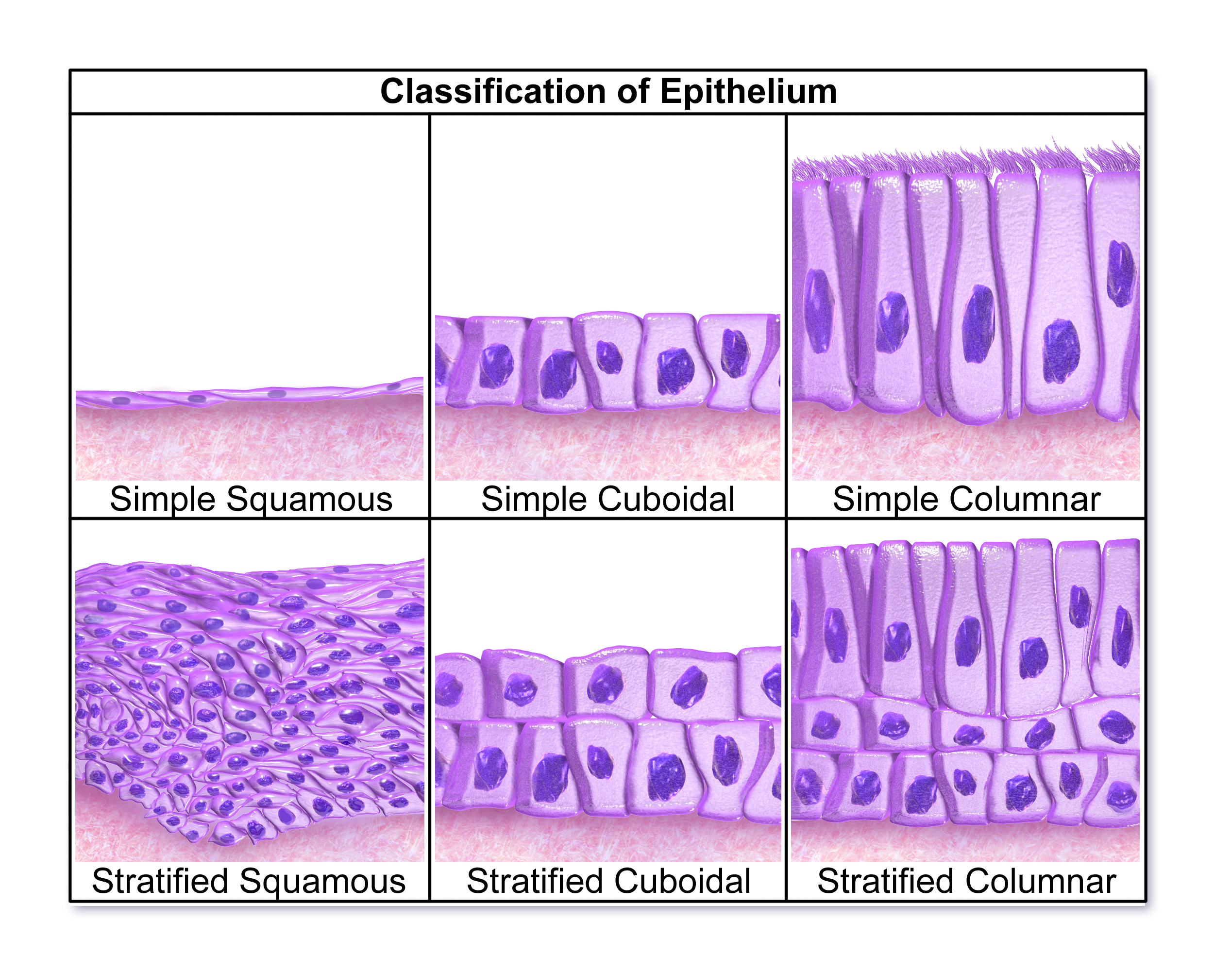 Classification of Epithelium. See a full animation of this medical topic.